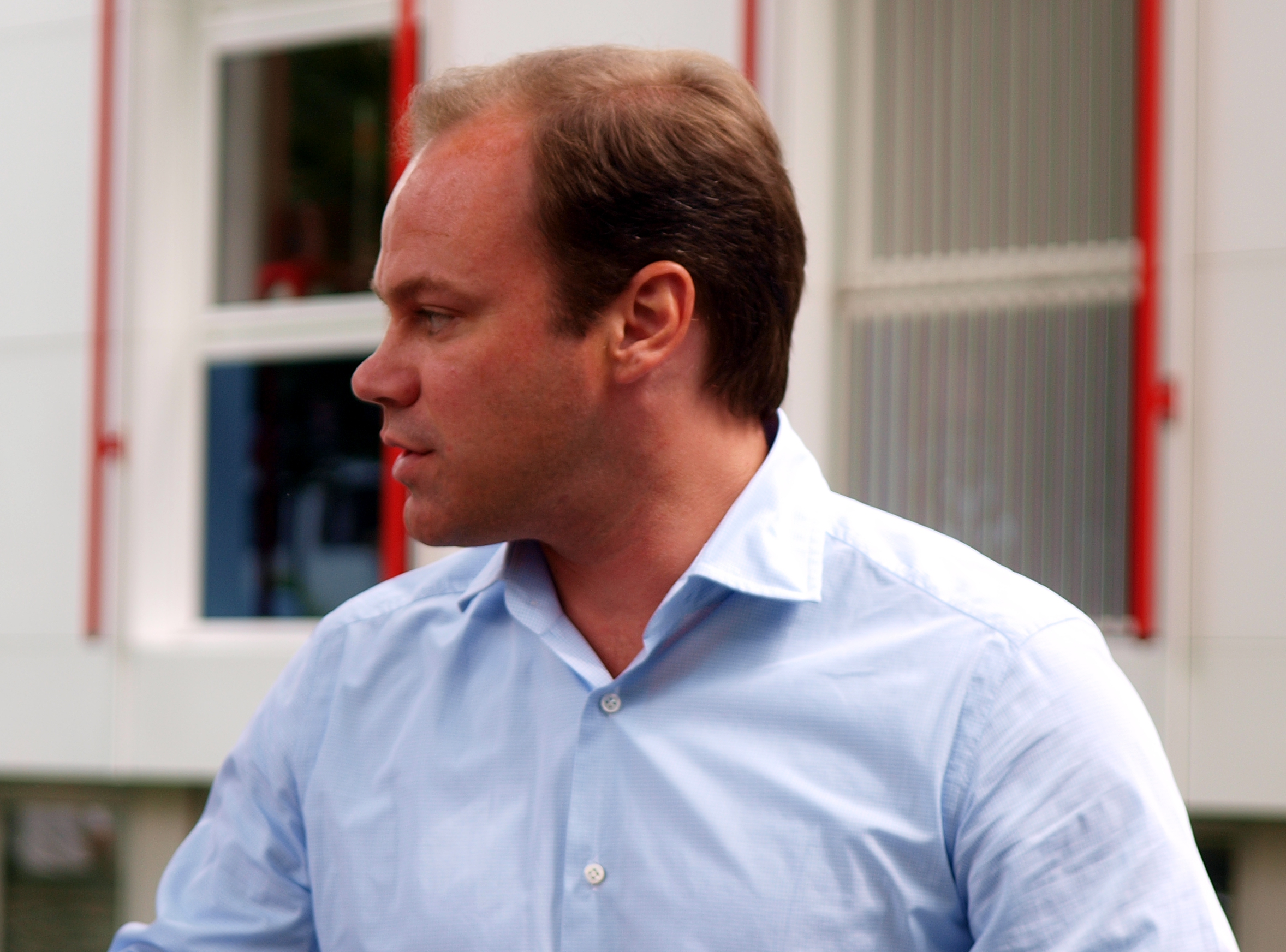 Christian Nerlinger